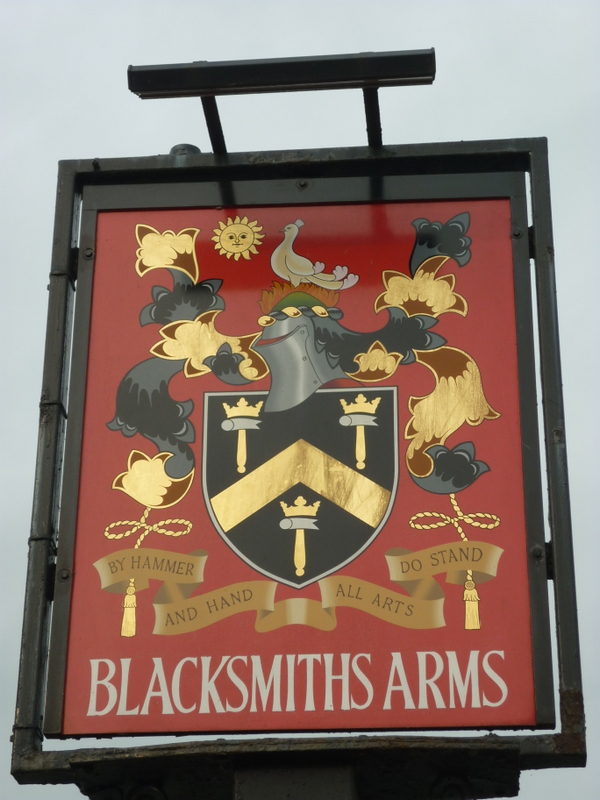 The Blacksmith's Arms, Spring Gardens